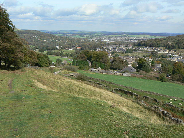 Burbage and Buxton From the path from Burbage up onto Burbage edge. At this point is appears to be following the earliest alignment of the road over to Macclesfield. The next stage can be seen just down the slope at the right, with sheep grazing on the line of the old railway.